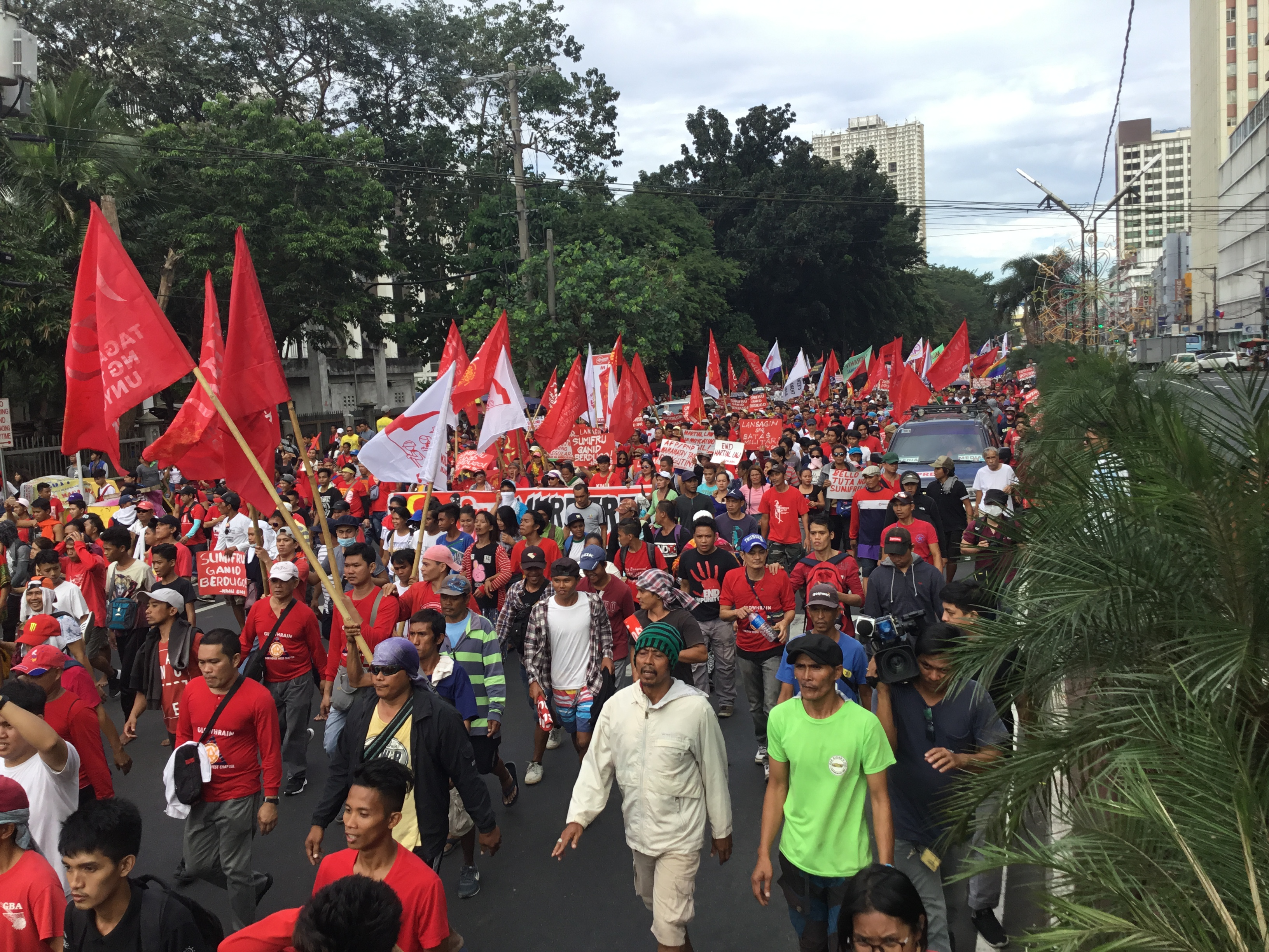 Protest Mobilization Bonifacio Day 2018